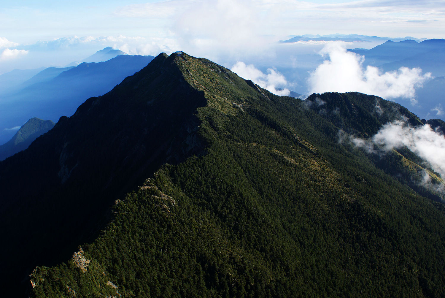 玉山北峰 Jade Mountain Northern Peak Bân-lâm-gú: Gi̍k-suann/Gio̍k-san Pak-hong. 玉山北峰